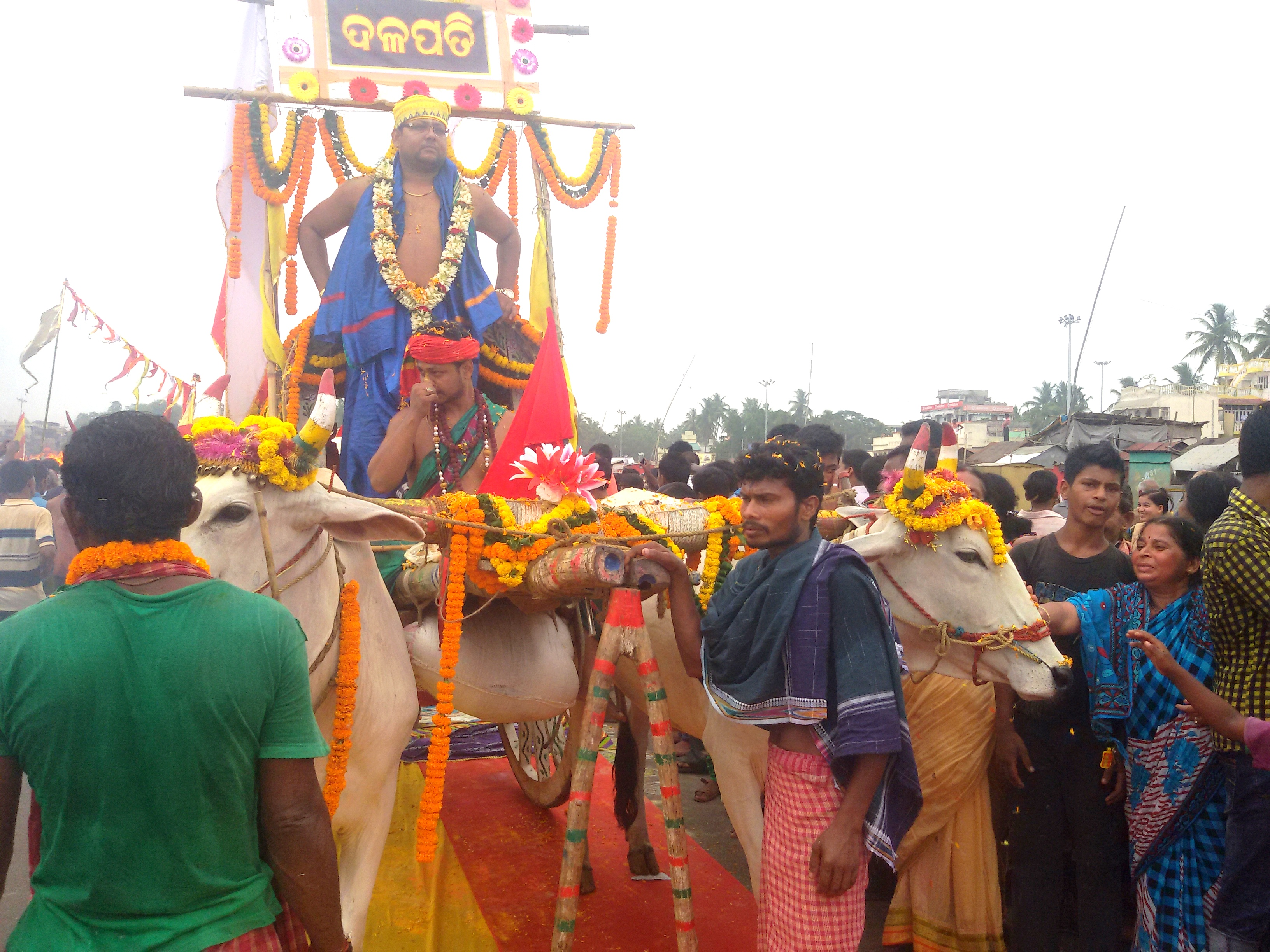 Nabakalebar 2015 @ Grand Road on its journey Jagannath Mahadaru.